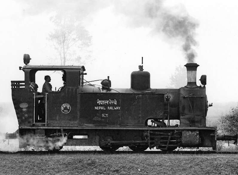 Nepal Railways 1927 AD during the reign of Rana PM Chandra SJBR